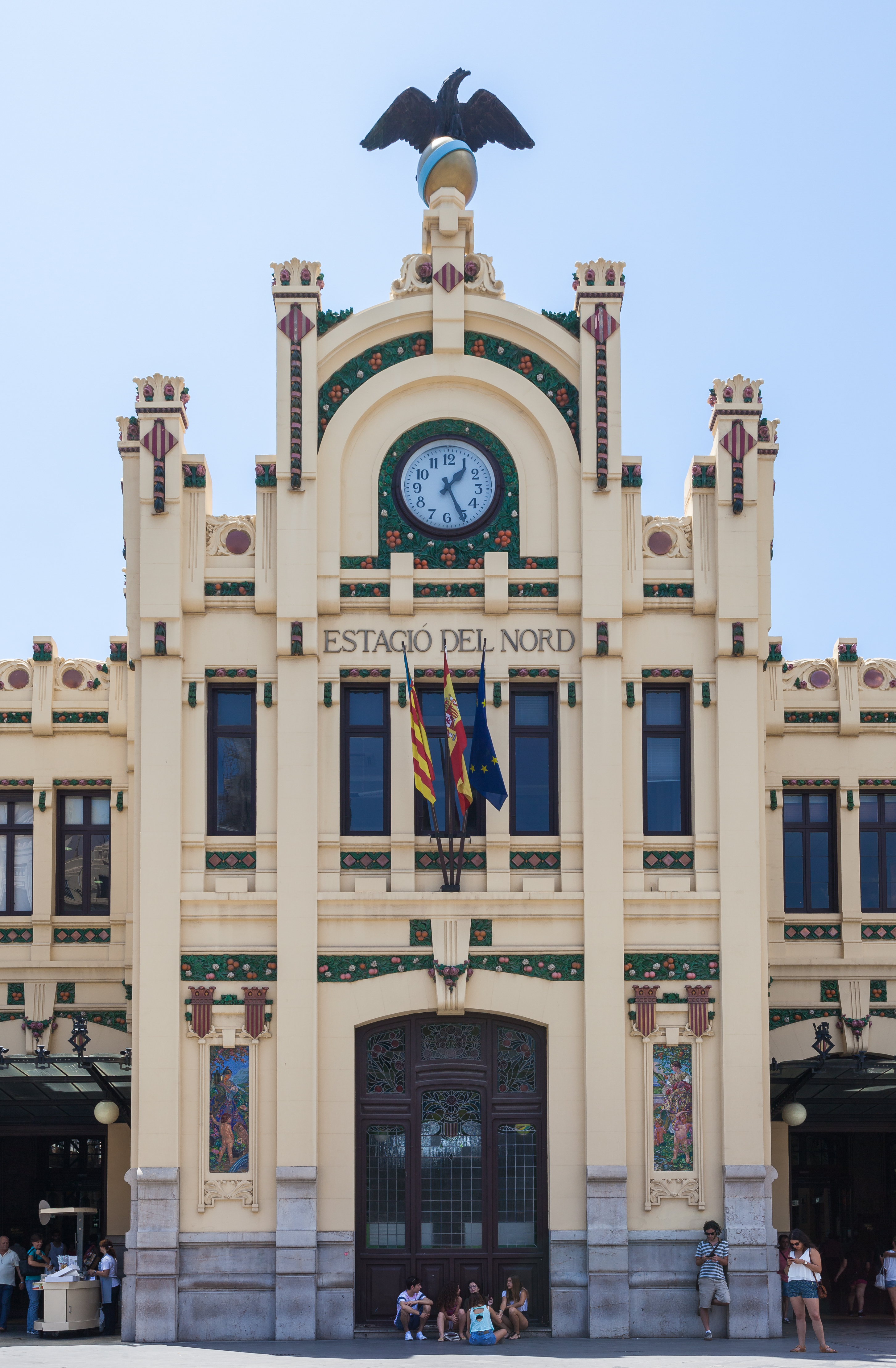 Station of North, Valencia, Spain